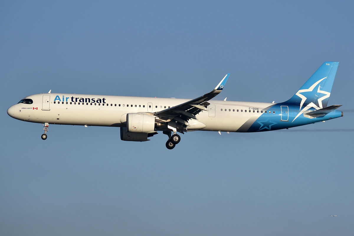 Air Transat, C-GOIE, Airbus A321-271NX